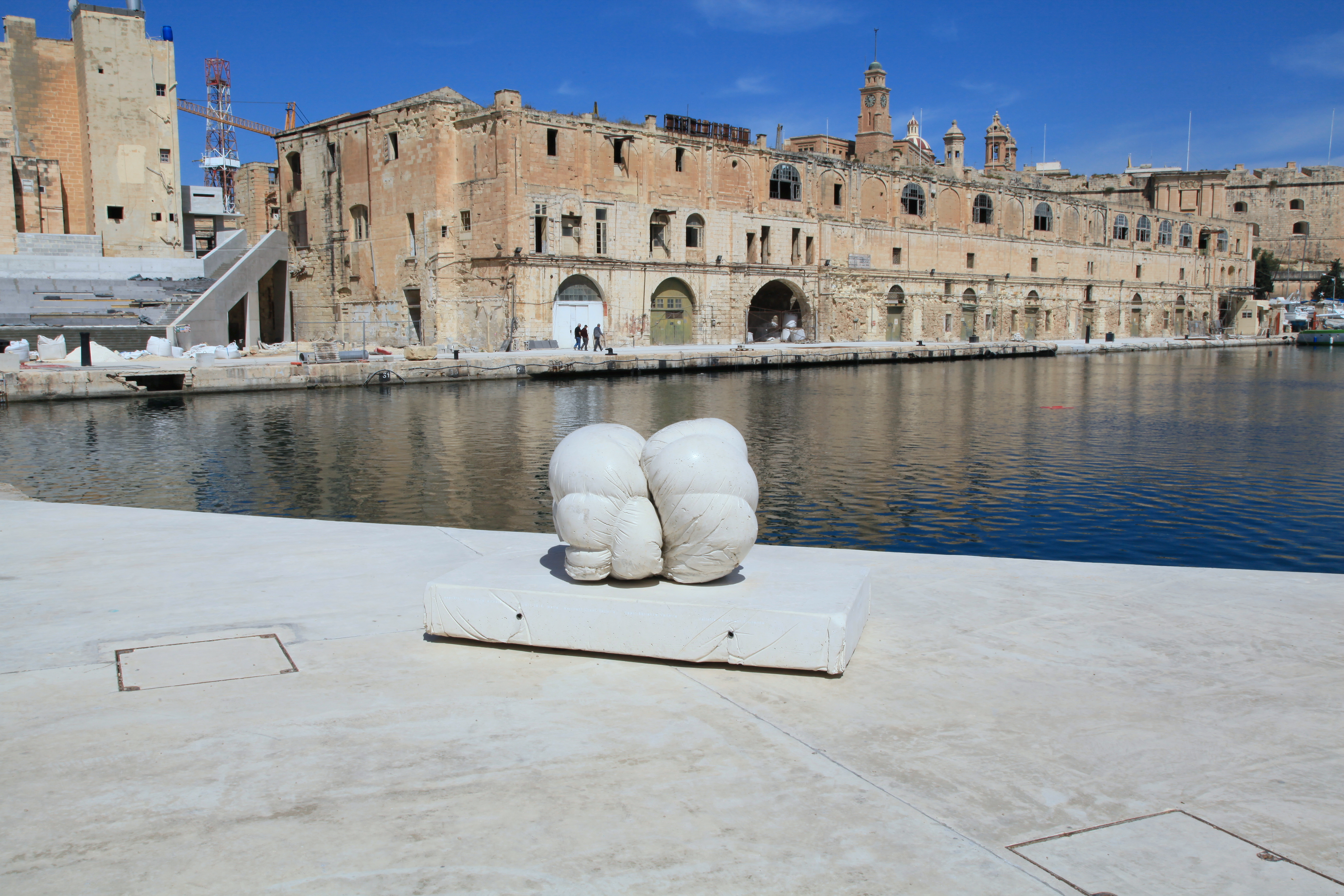 Restored Grand Harbour Dock no. 1 at Fuq San l-Inkurunazzjoni in Cospicua, Malta